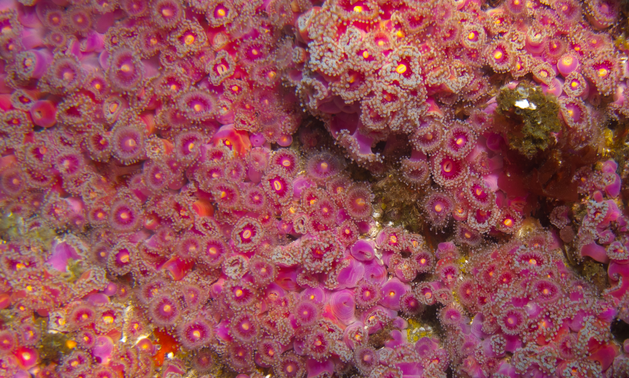 Strawberry anemones, Corynactis californica.